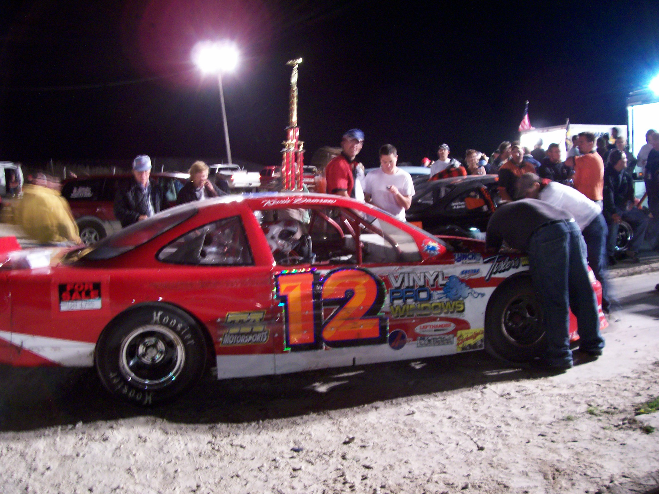 Mid-American Stock Car Series driver Kevin Damrow after winning the division's premiere event, the 2007 Vercauteran Memorial race at 141 speedway.